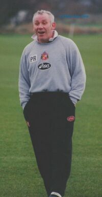 Peter Reid in his days managing Sunderland